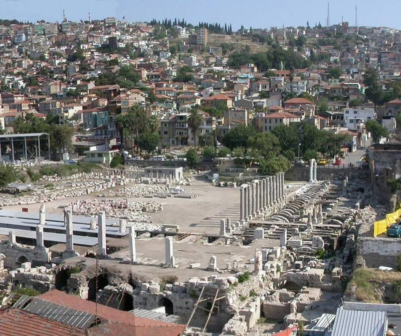 Agora of Smyrna